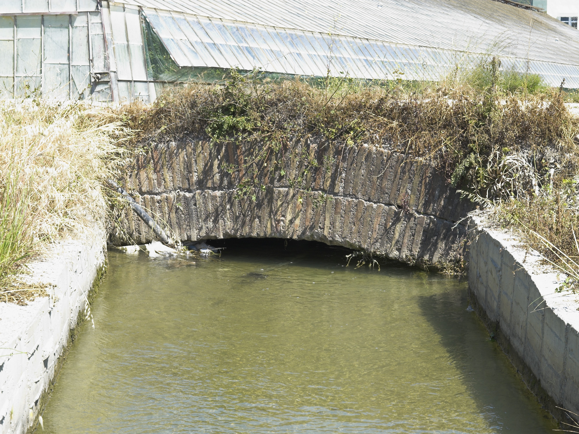 The Roman Bridge near Limyra, Lycia, Turkey. Twelfth arch northside. The late antique structure is one of the oldest segmental arch bridges in the world. The 360 m long bridge crosses on 28 arches the Alakır Çayı, 26 of which being segmental arches with an average span to rise ratio of 5.3 to 1. Today, the structure is buried up to the vaults by river sedimentation.